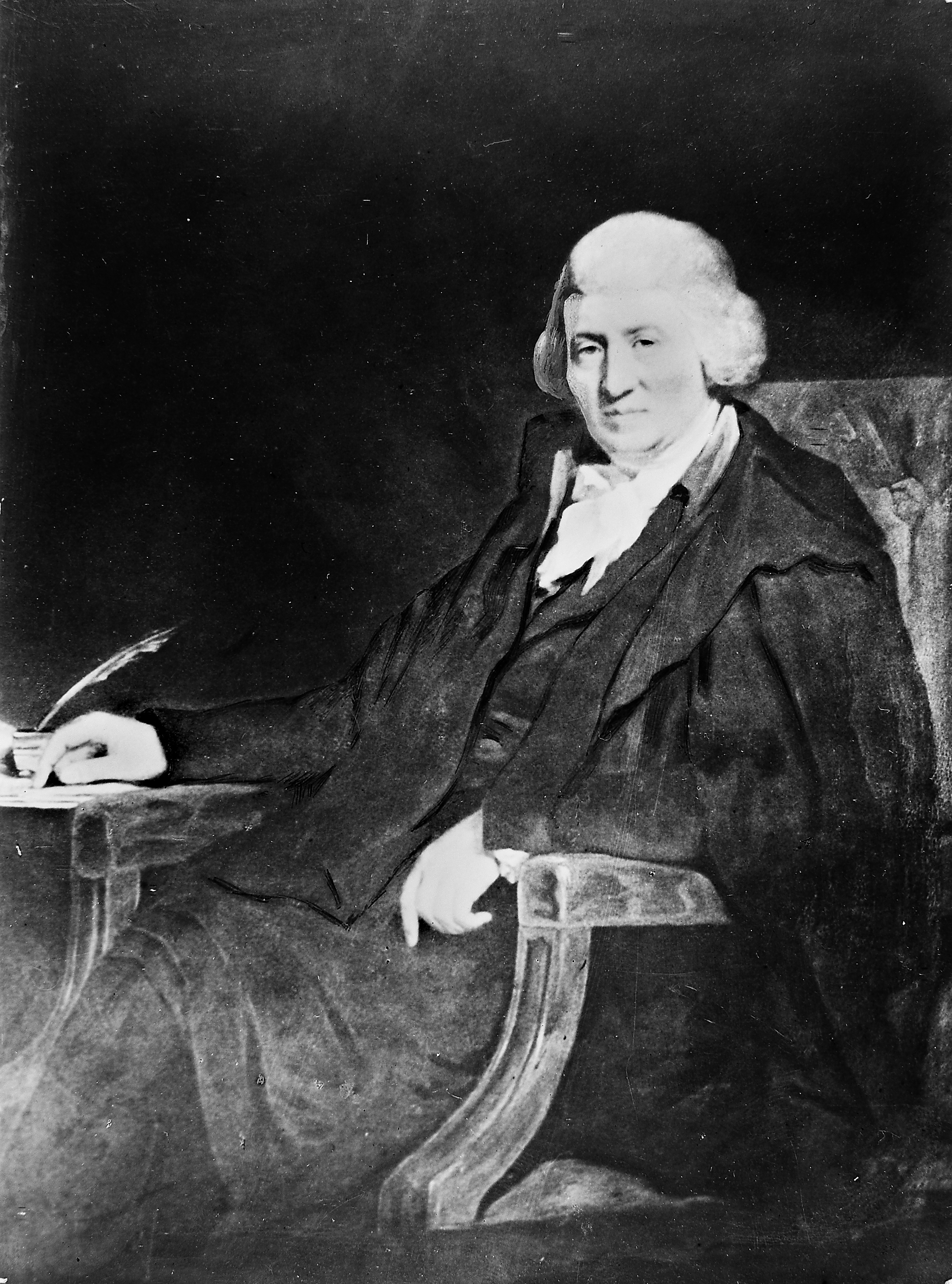 Portrait of Alexander Hamilton, 10th Duke of Hamilton: 3/4 length, seated, in the possession of Sir E. Hulse Wellcome Images Keywords: Henry Raeburn; Alexander Hamilton